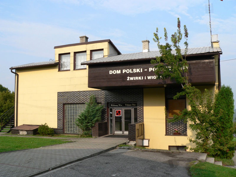 Description: Dom Polski Żwirki i Wigury (Polish House of Żwirko and Wigura) in Kostelec (Kościelec), Těrlicko (Cierlicko), Czech Republic. It is a home of MK PZKO Kościelec. Date: 18 September 2006 Camera: Panasonic DMC-FZ20 Author: Czesil